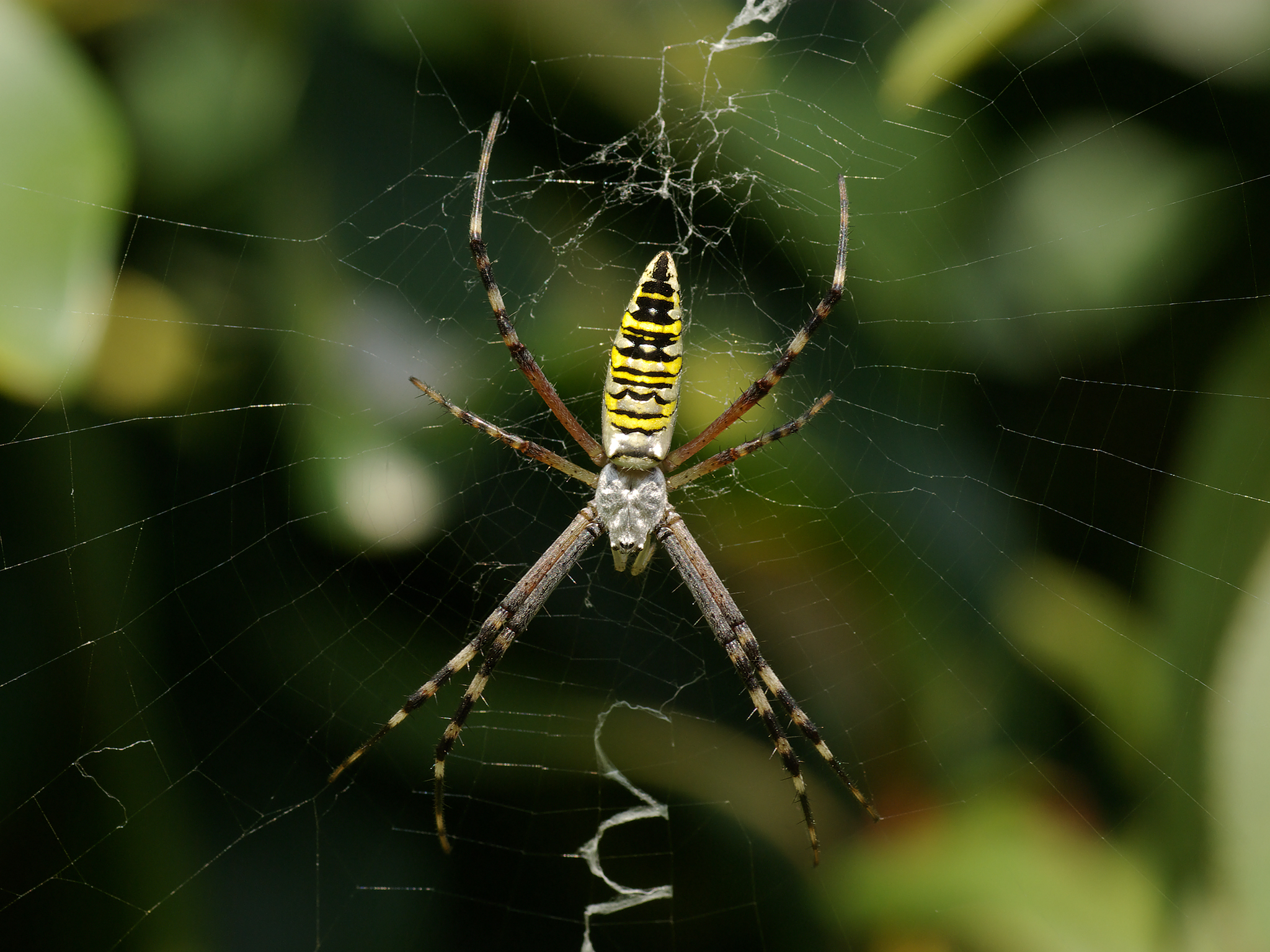 Wasp spider